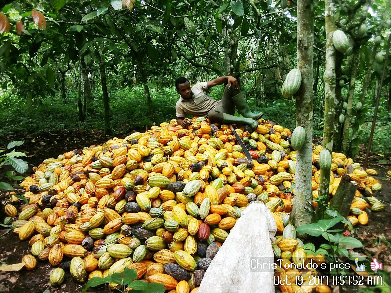 That's a pack of coacoa harvested from my farm This is an image with the theme "Africa on the Move or Transport" from: Cameroon